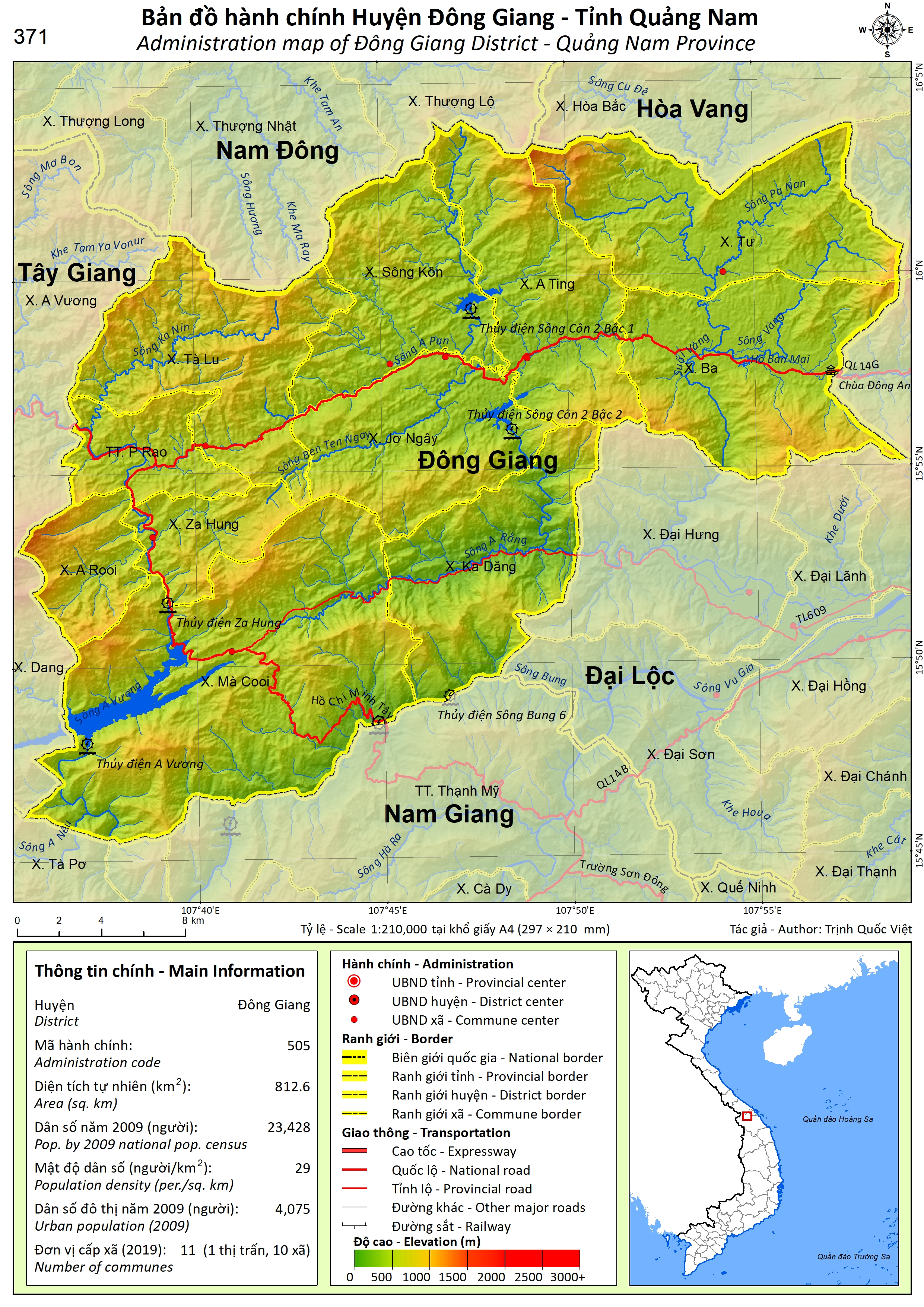 Administration map of Dong Giang District, Quangnam Province